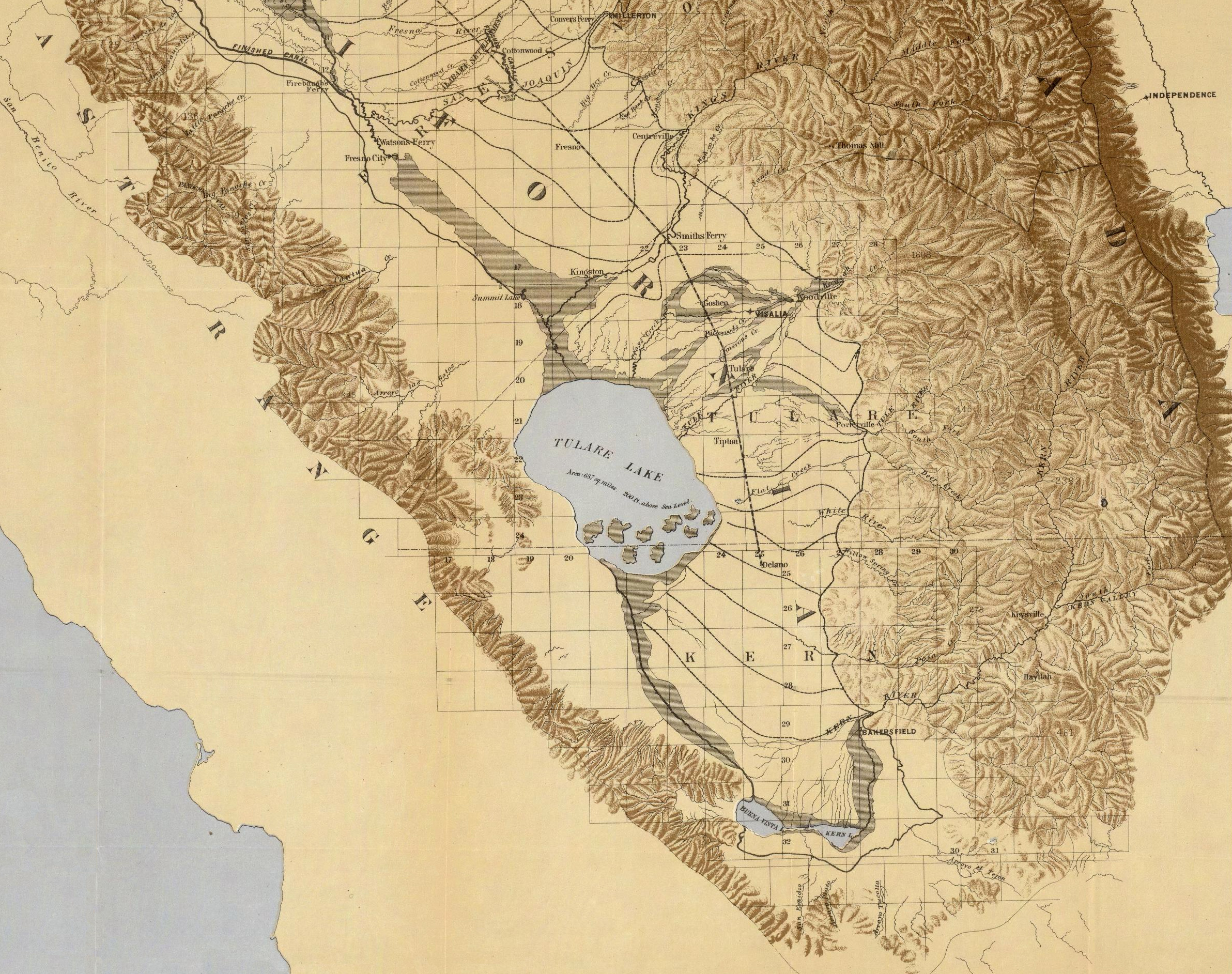 Map of San Joaquin, Sacramento and Tulare Valleys, State of California, prepared under the direction of the Board of Commissioners on Irrigation, appointed under the Act of Congress approved March 3rd 1873, showing the country that may be irrigated and a provisional system of irrigation. Compiled from the Maps of the Geological Survey of California and from Special Survey and Examinations. Scale: 1 inch to 12 miles. 1873. Published by authority of the Hon. Secretary of War in the Office of the Chief of Engineers U.S. Army. – Tulare Valley part. Dotted lines: hypothetical irrigation canals